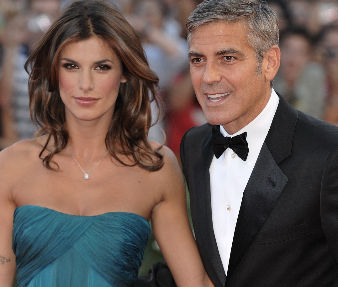 George Clooney and Elisabetta Canalis at the 66th Venice International Film Festival.